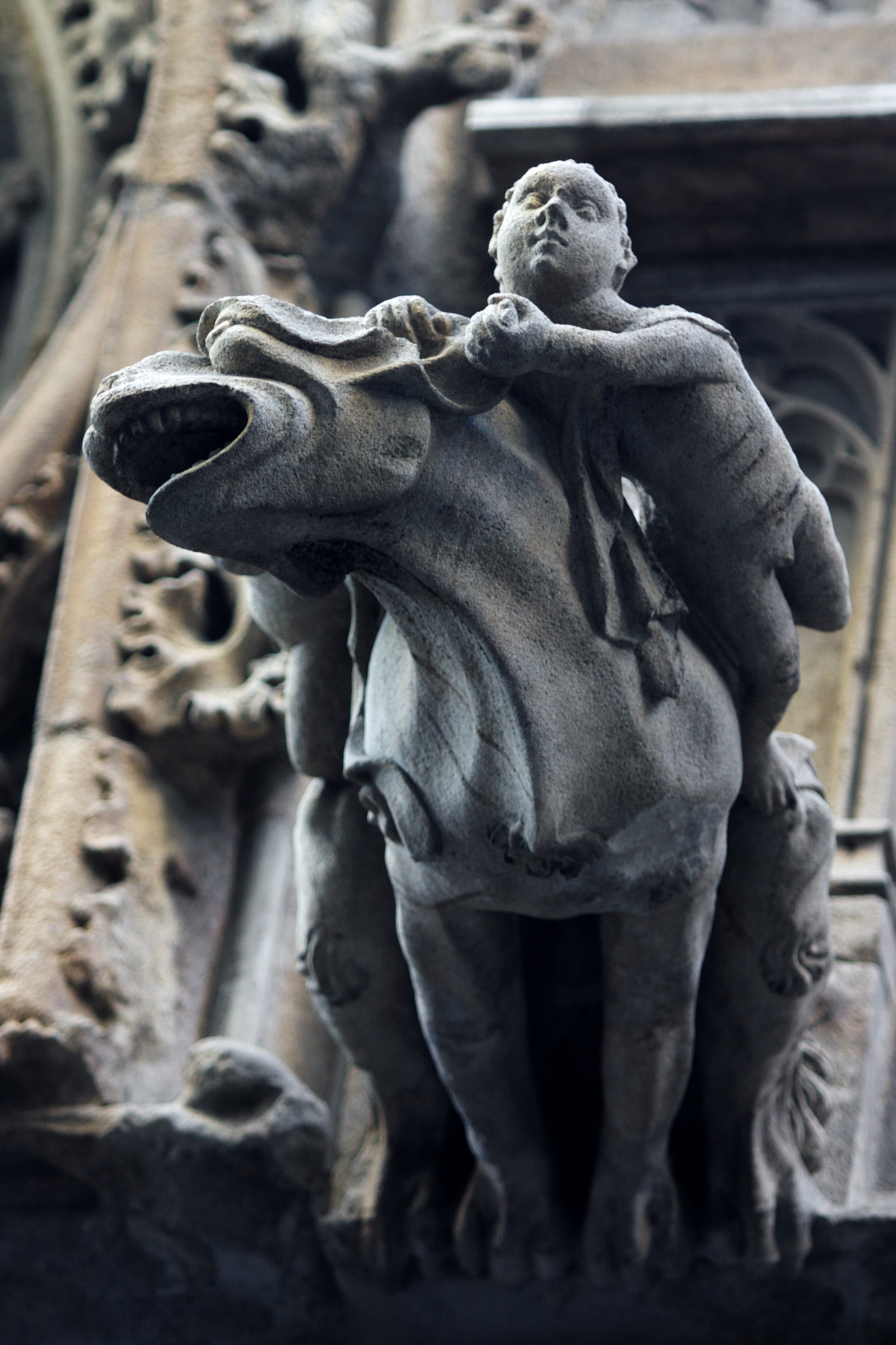 Gargoyle in Bisbe st. façade of Palau de la Generalitat (Catalan Government Seat) in Barcelona. Made by Pere Joan 1410-1425- flamboyant gothic style.